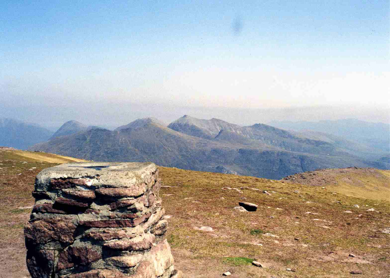 The Fisherfield Munros from Slioch summit. Personal photograph taken by Mick Knapton in May 1992